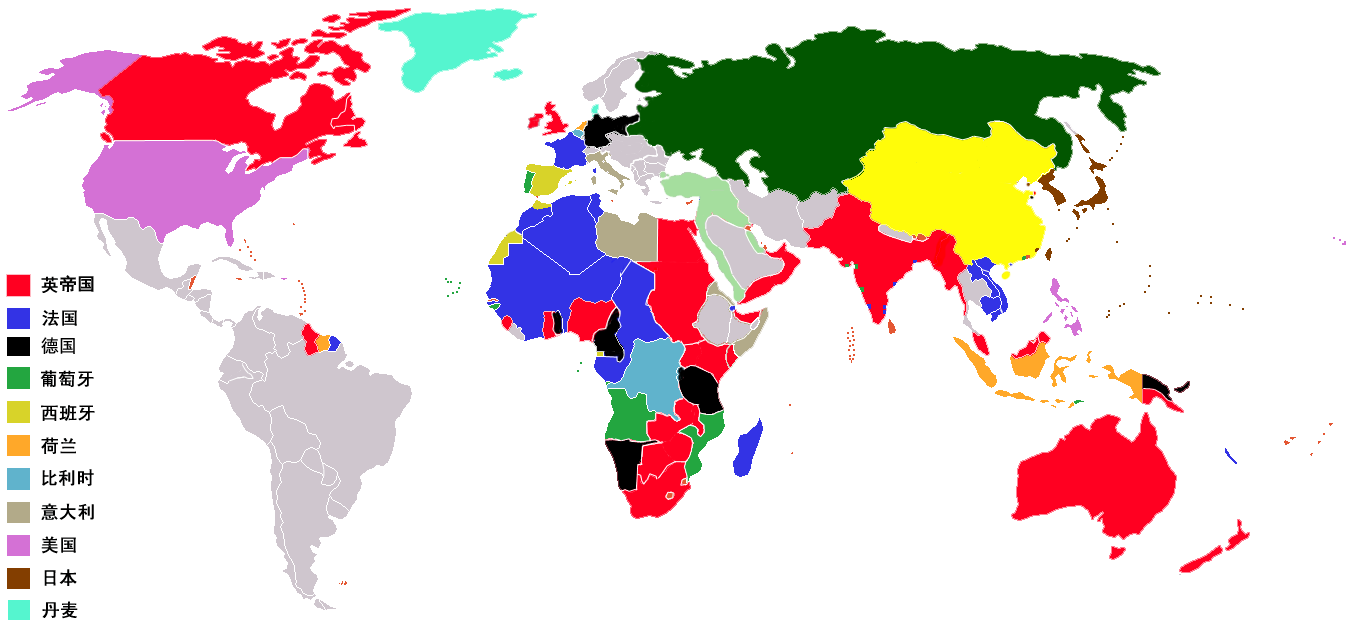 The Colonization Place around the World in 1914